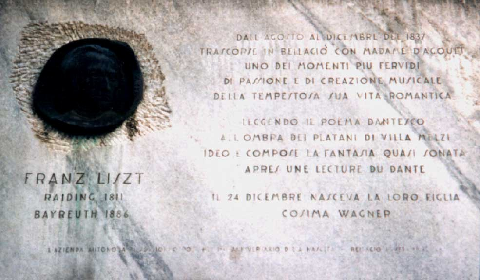 Franz Liszt in Bellagio (Italy).